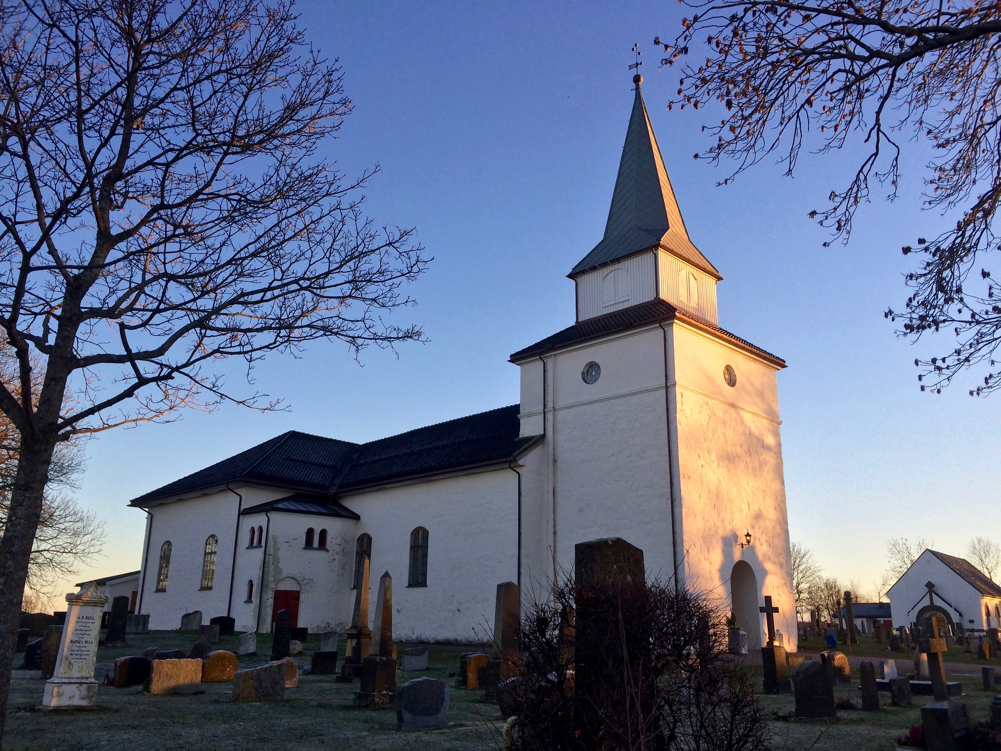 Nøtterøy church, Nøtterøy, Norway, 13th December, 2015. Taken with iPhone5